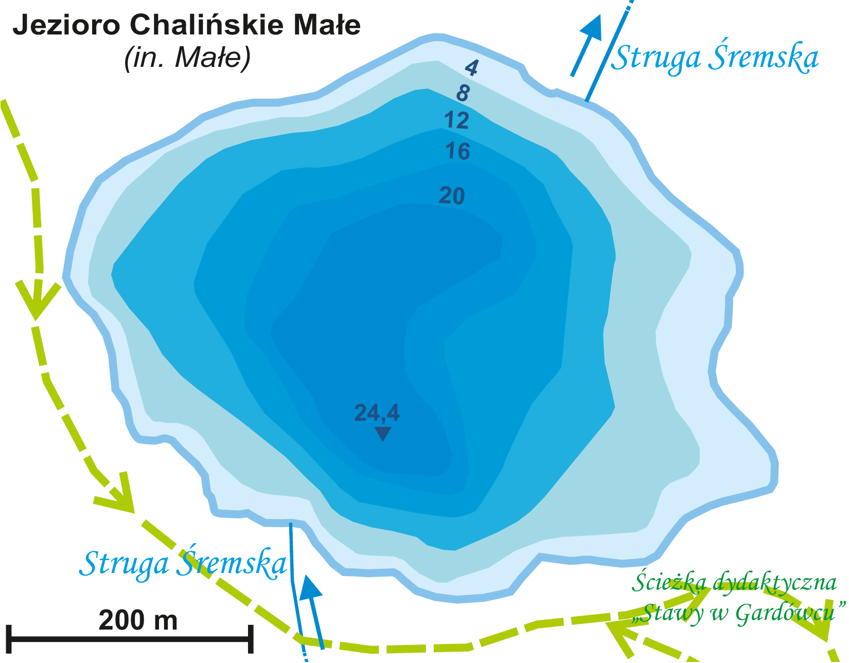 Small Chalinskie Lake in Sierakow District